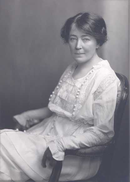 Swedish physician and women's rights activist Alma Sundquist, circa 1919